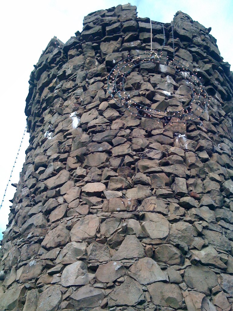 torre del castillo